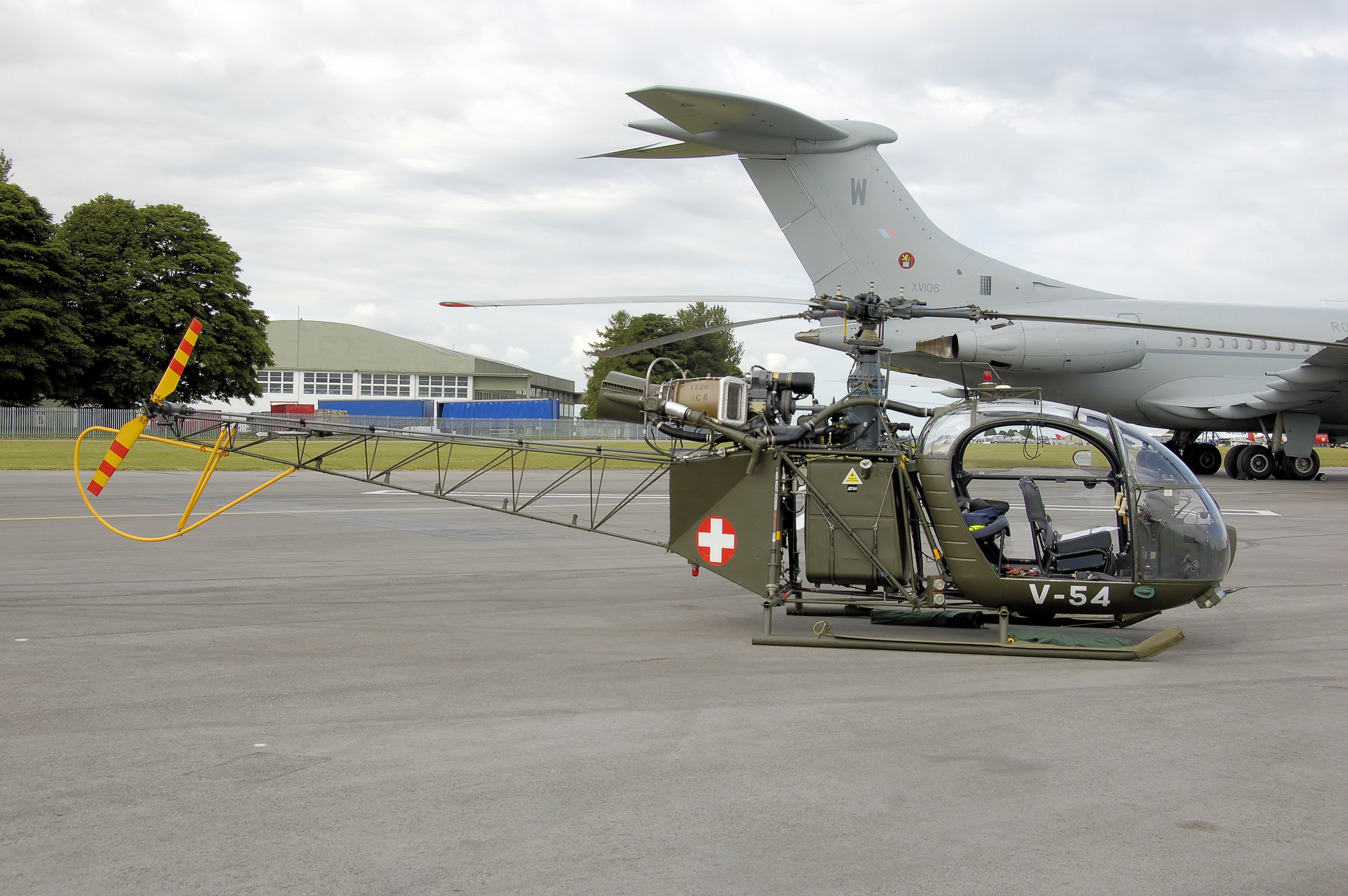 Alouette SE.3130 II parked at the Cotswold Classic Air Show on 15th June 2008 at Kemble Airport, Gloucestershire, England. Formerly V-54 in the Swiss Air Force, now on the UK Civil Register as G-BVSD, built 1964. The aircraft in the background is a VC10 refuelling tanker of the RAF. Photographed by Adrian Pingstone in June 2008 and placed in the public domain.